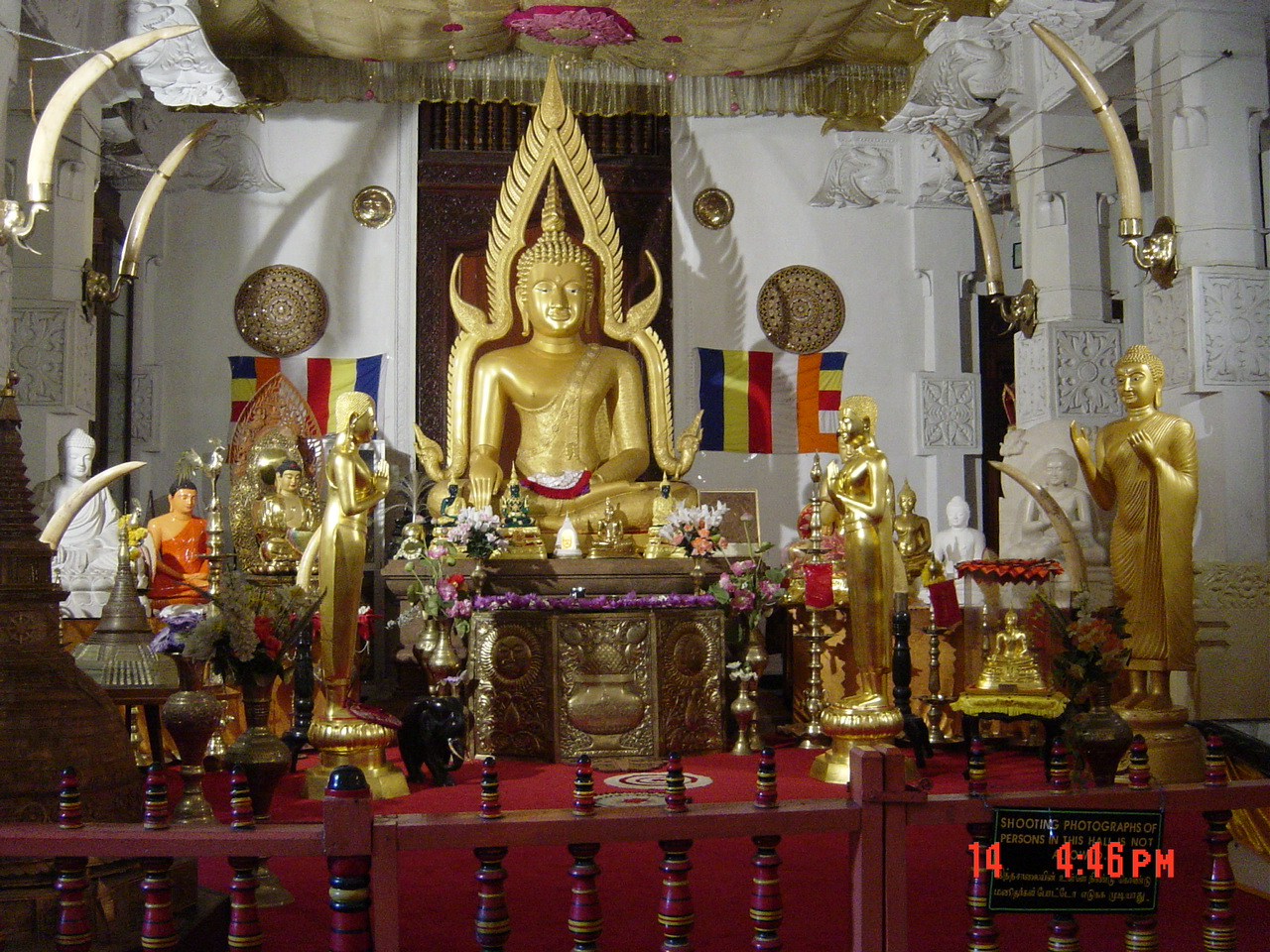 Inside Tooth temple: The magnificent Buddha collection inside the Tooth temple. The big one in the middle is of solid gold, while the two small ones right in front of it are in emerald.